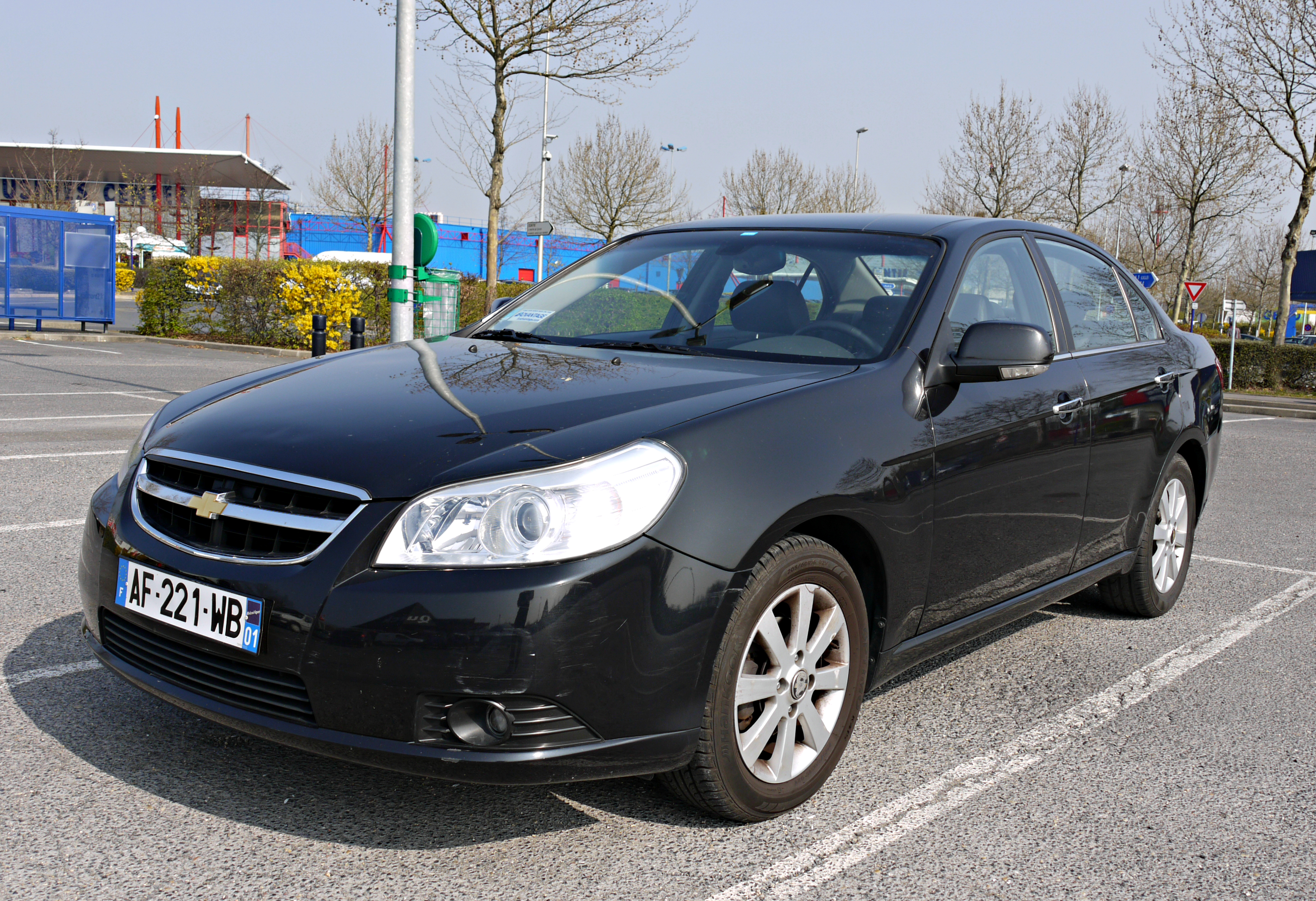 Chevrolet Epica saloon. Rented for a couple of days to drive around Paris before going back home. Fully equipped but the quality of materials was years behind. Despite the low mileage, the interior looked exhausted. Chevrolet should have kept the name Daewoo for their "low-cost" models (ie: Renault with Dacia)....